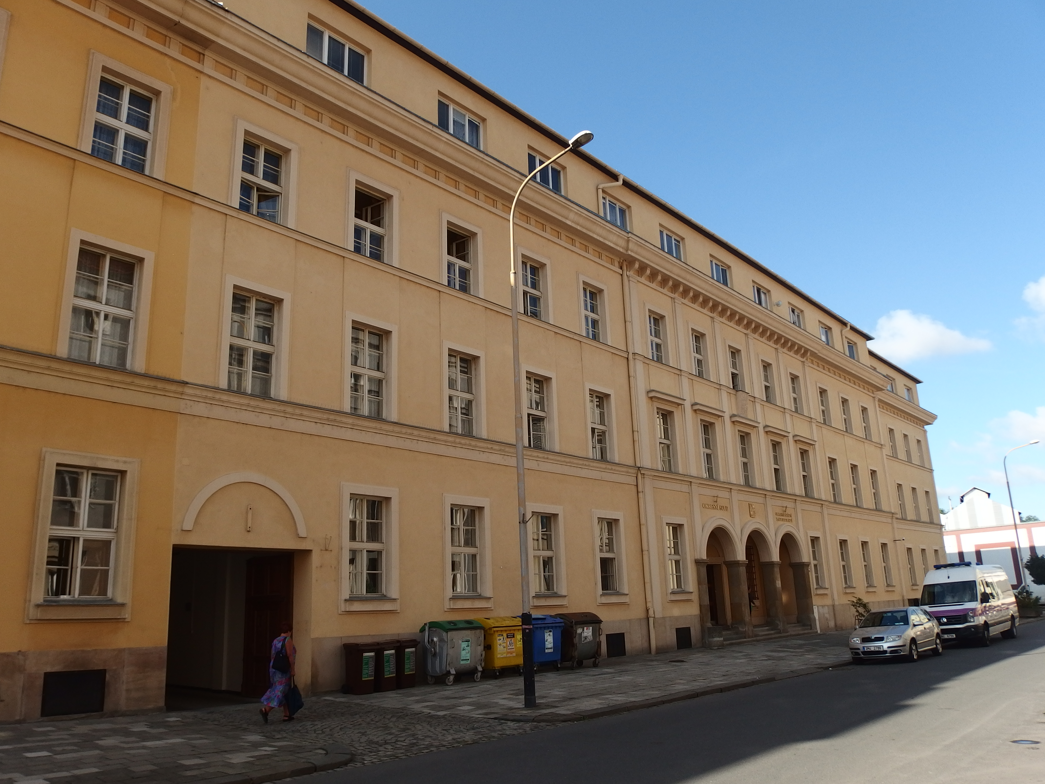 Přerov, Czech Republic.